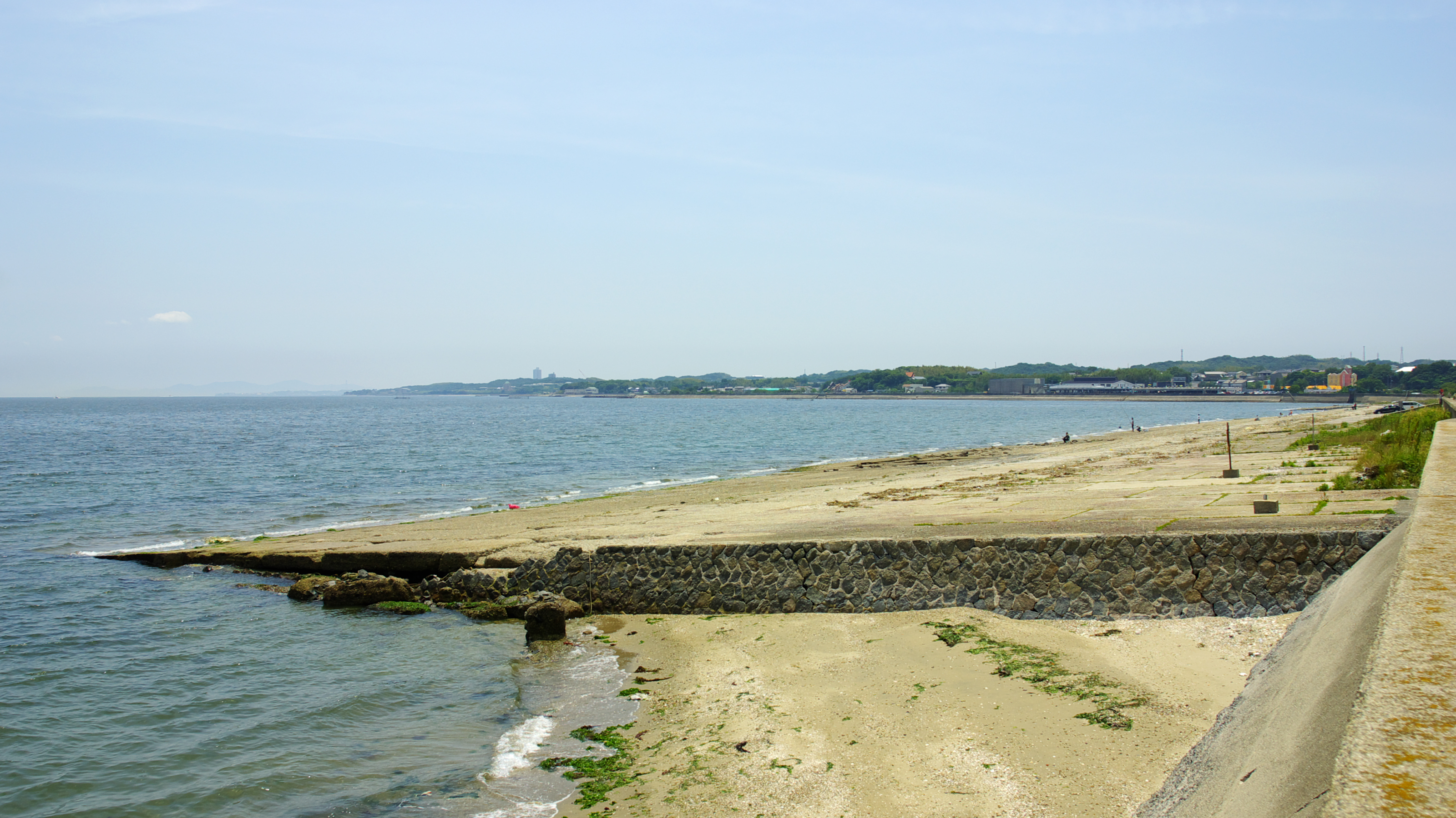 Slipway of Kowa Naval Air Station remaining in Mihama town, Aichi Prefecture